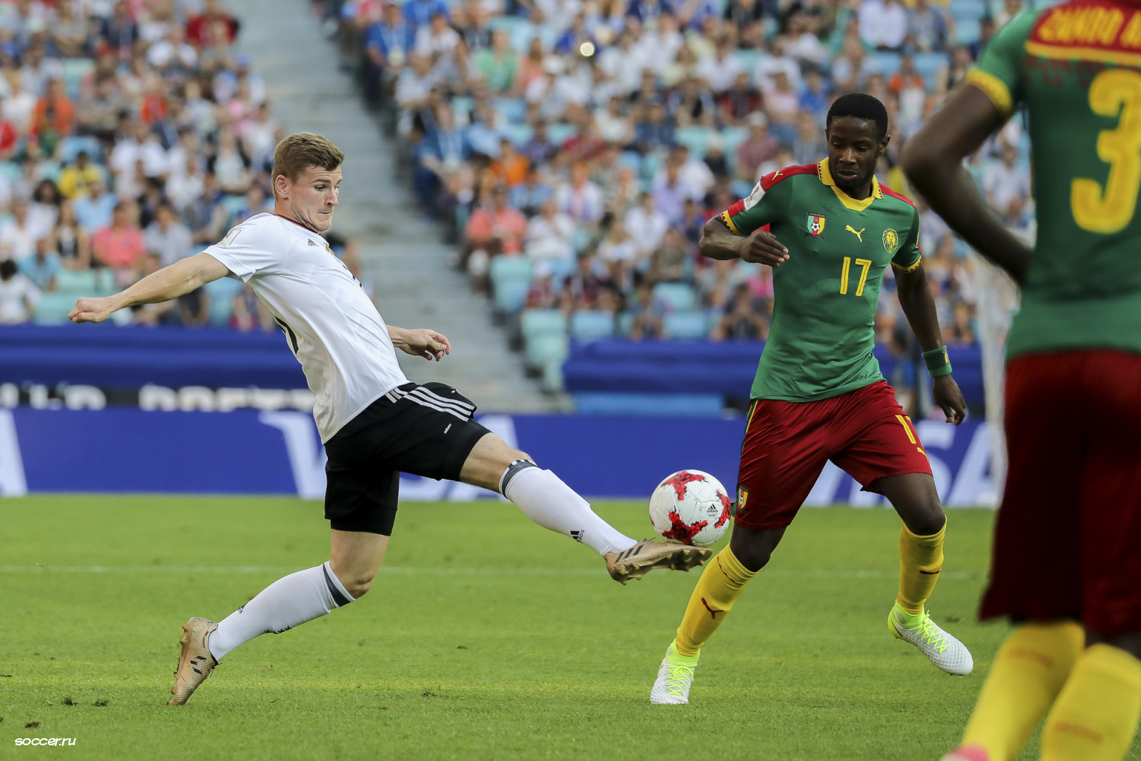 Germany VS. Cameroon 3 - 1, 25 June 2017